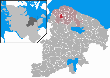 This map shows the area of the Gemeinde (municipality) Prasdorf in the Kreis (district) Plön, Schleswig-Holstein, Germany.